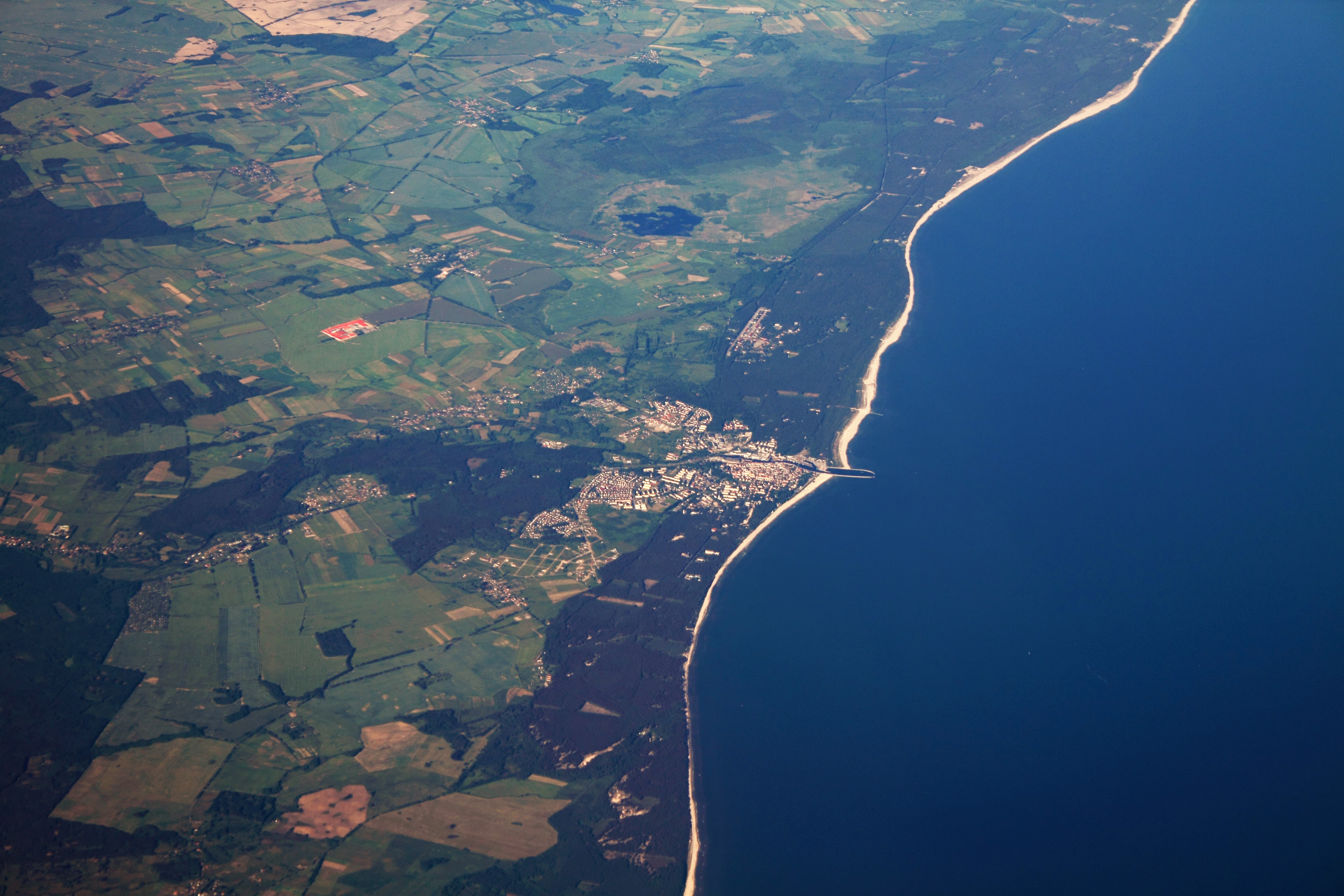 The polish city of Ustka on the southern banks of The Baltic Sea.